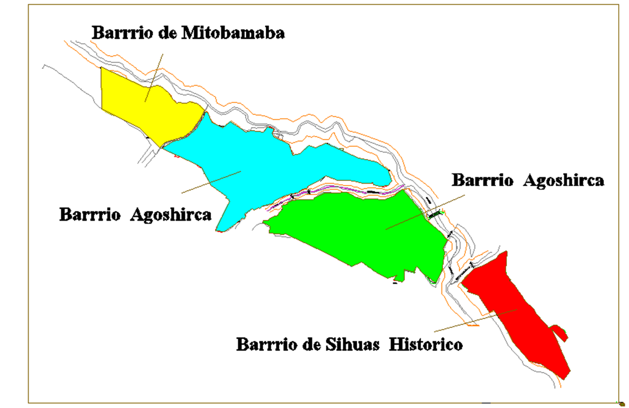 barrios de sihuas